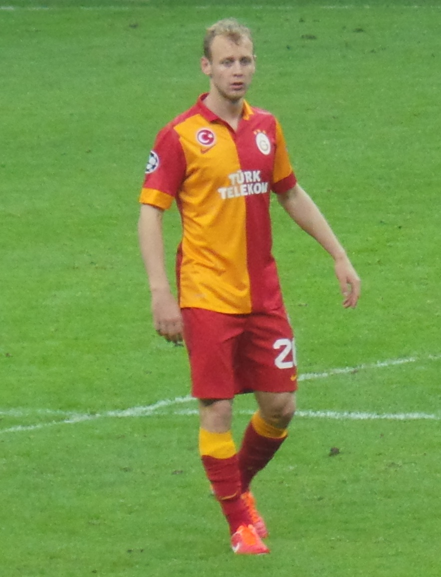 Semih vs Real